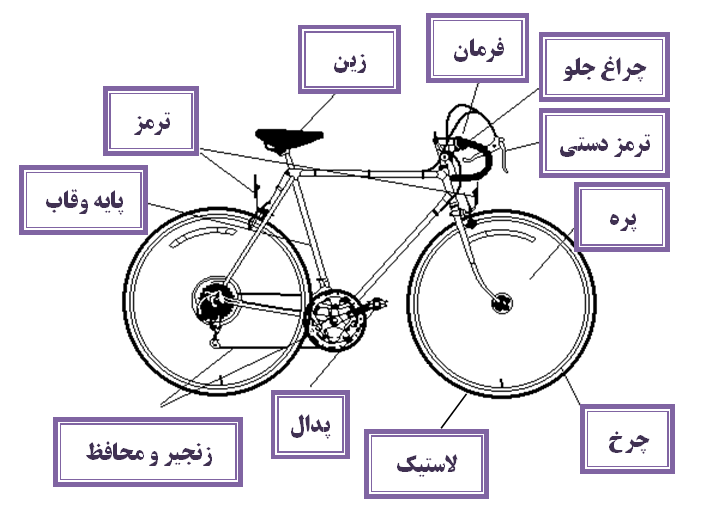 Bicycle description in farsi language